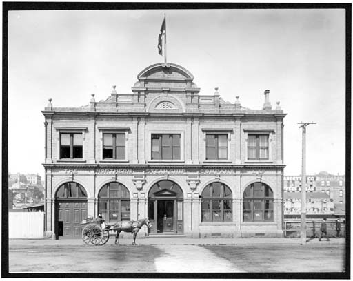 A two-storey brick commercial building with flag and pole at the top. Arched windows and doors on ground floor, rectangular windows on second floor. The year "1898" and "The Northern Steam Ship Company Ltd" in relief. A horse and small cart with "Grey Lynn" painted on the side waits on the road. A capped boy holds the reins.